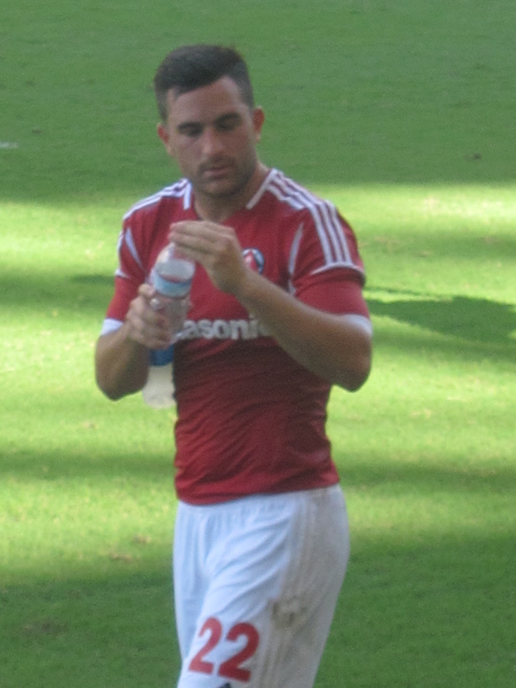 Jack Sealy (2 September 2012, 2012–13 Hong Kong First Division League vs Yokohama FC Hong Kong at Hong Kong Stadium)